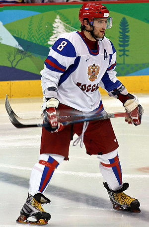 Alexander Ovechkin, Olympics 2010